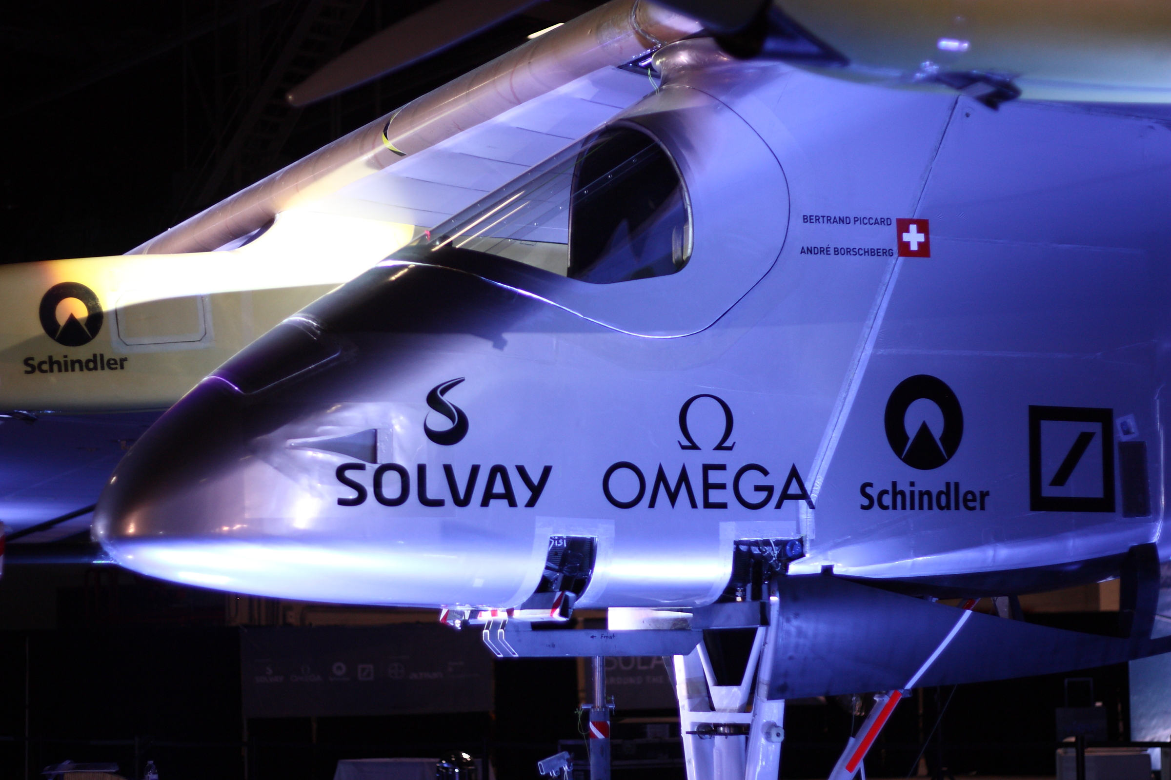 The Solar Impulse, HB-SIA, on display at JFK International Airport, Hangar 19, on July 14th 2013. Directly behind the cockpit are visible the names of Bertrand Piccard and André Borschberg.